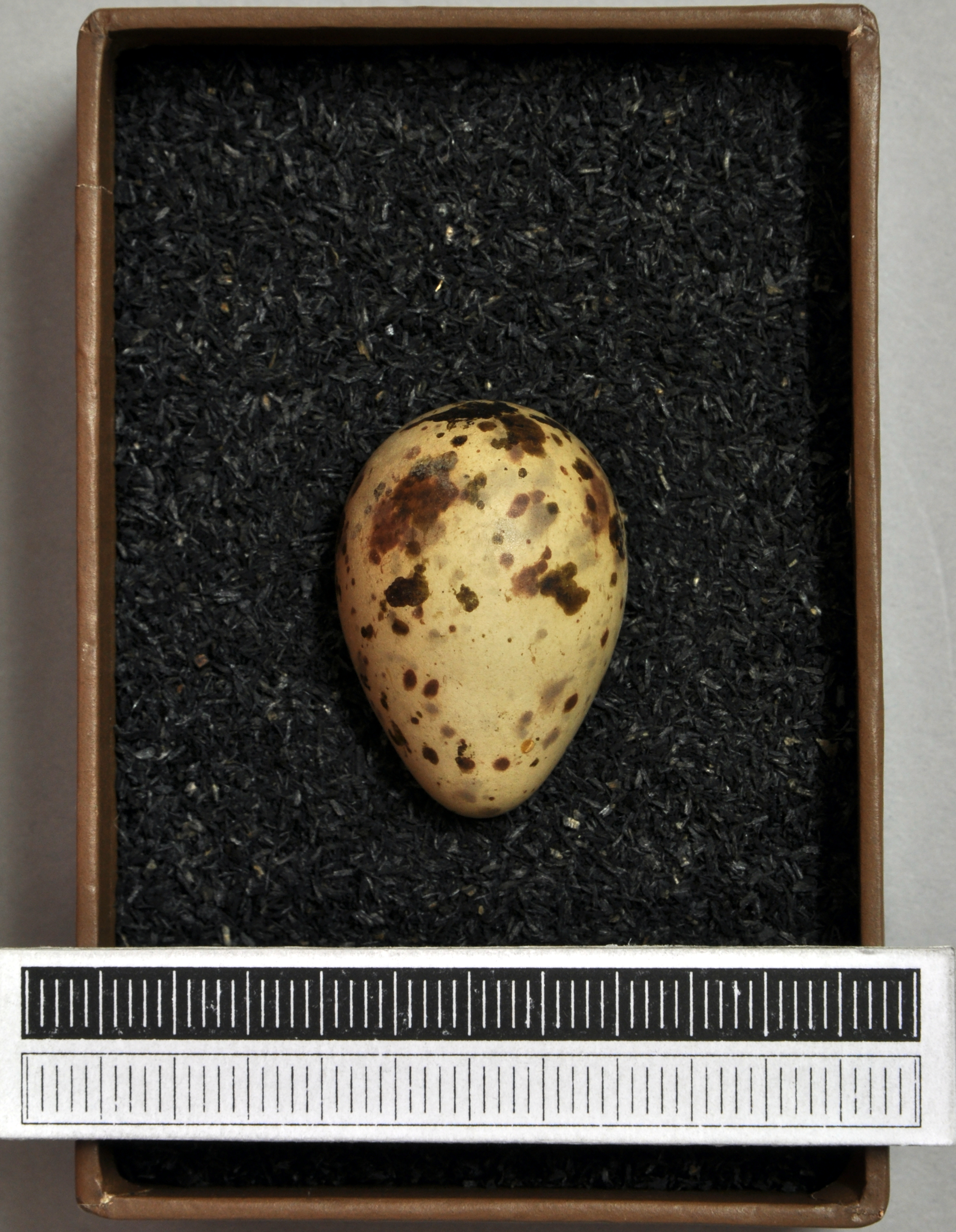 Little stint Calidris minuta , egg, Coll. Museum Wiesbaden